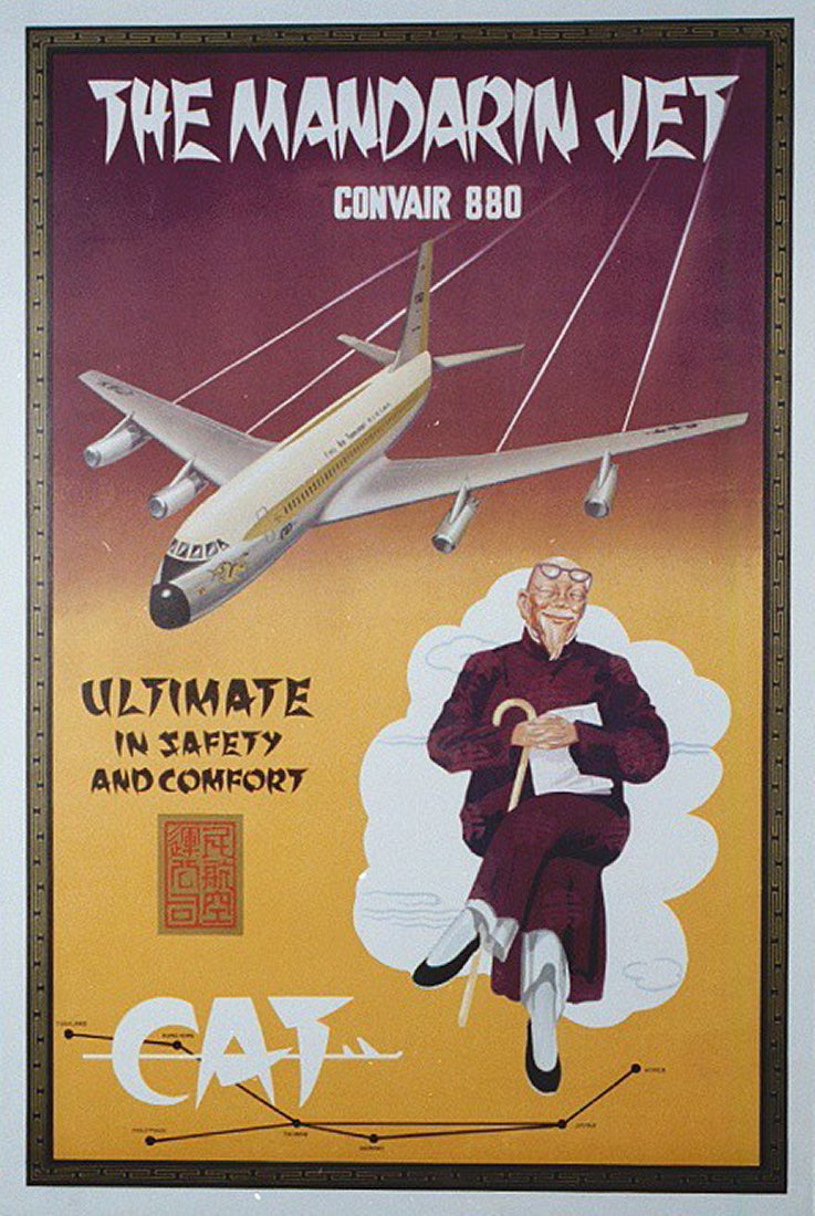 Poster from the Don Thomas Collection. Mr. Thomas was a collector of aircraft memorabilia who donated several posters to the San Diego Air and Space Museum. Repository: San Diego Air and Space Museum Archive